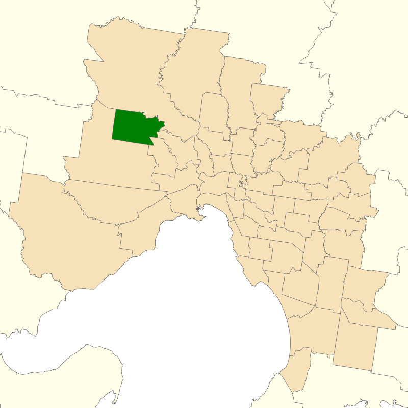 Location of the Victorian electoral district of Sydenham (dark green) in the Greater Melbourne area.